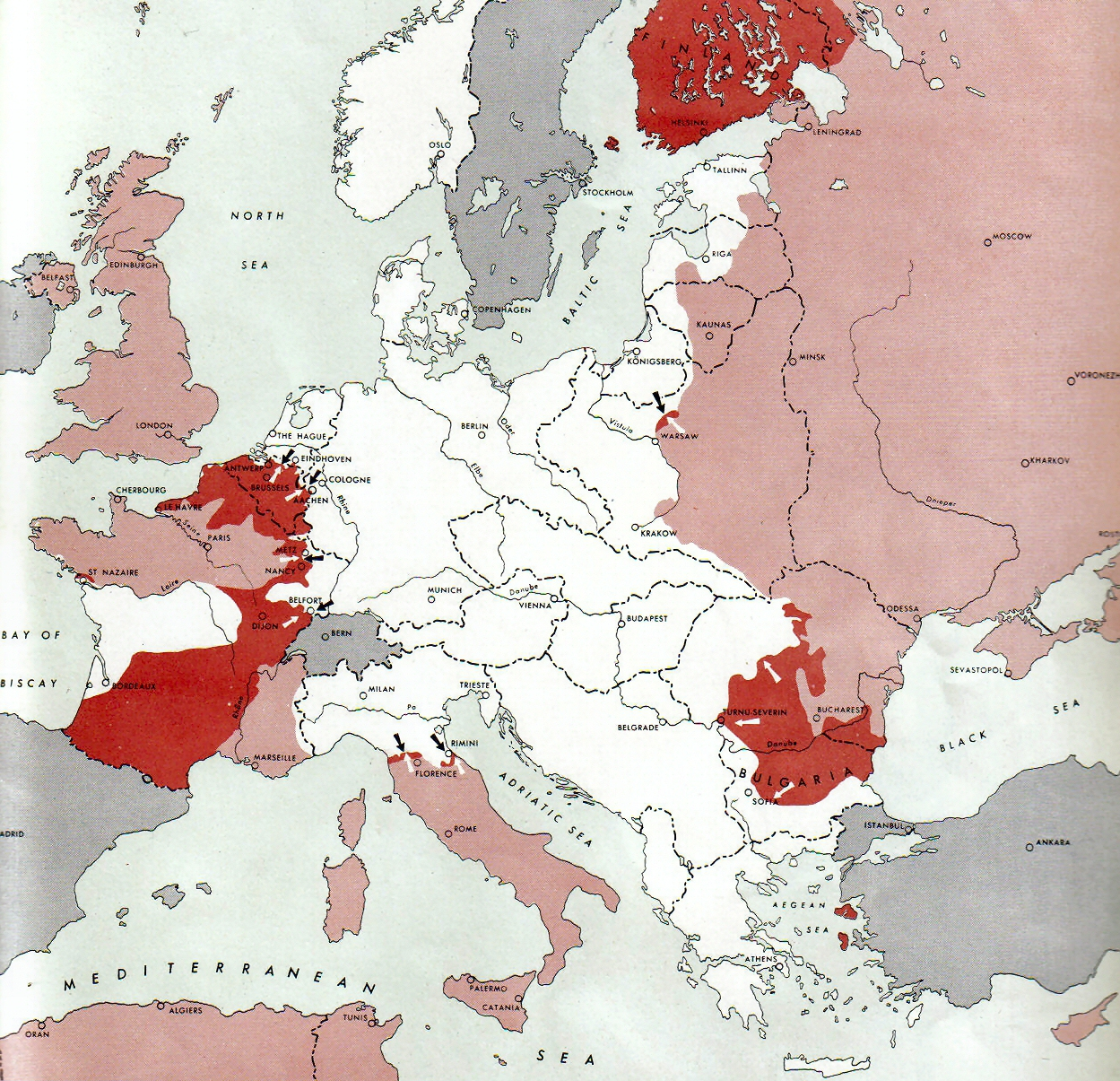 Map of the front against Germany: This map is taken from the source "Atlas of the World Battle Fronts in Semimonthly Phases to August 15th 1945: Supplement to The Biennial report of The Chief of Staff of the United States Army July 1, 1943 to June 30 1945 To the Secretary of War". (See Cover, Forward and Map details)